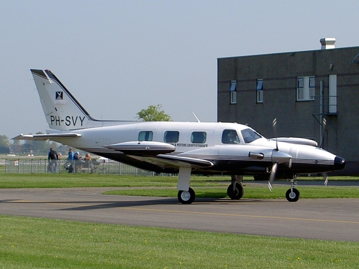 Photographed at Teuge International Airport.